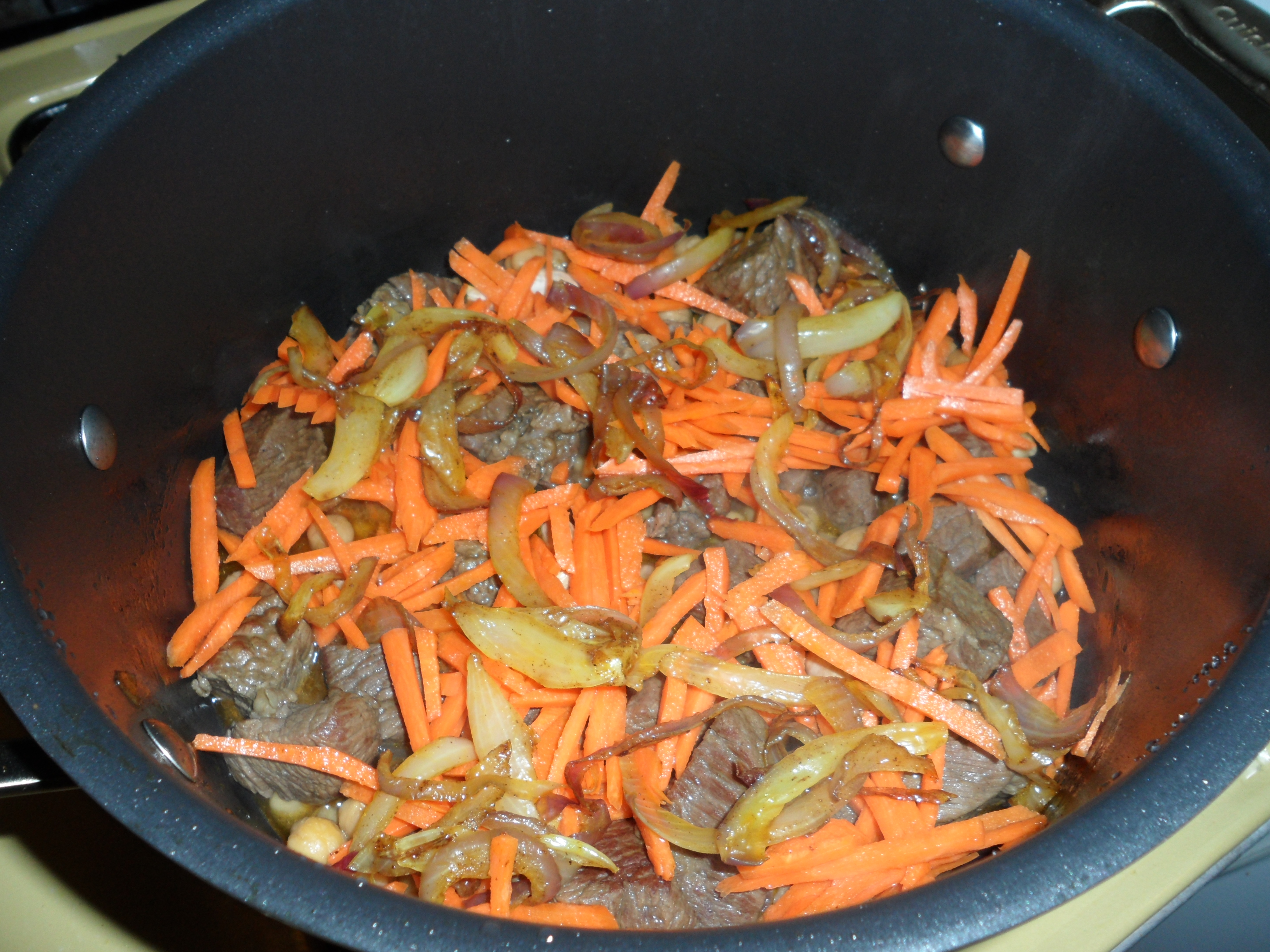 preparation of osh palov (ahspolow; ushpelau)